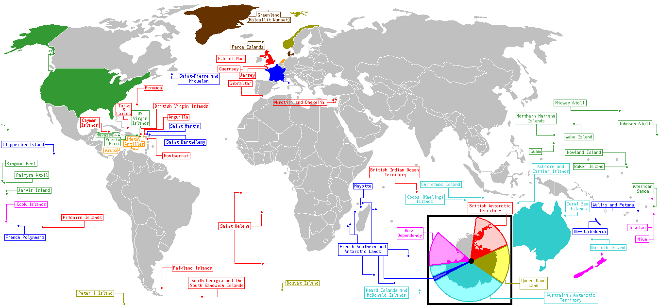 World map indicating dependent territories in 2007. Note that this map only indicates territories that are specifically categorized as "dependent territories". Territories that are an integral part of a country, like French Guiana, Svalbard, and Réunion are not indicated because they are not formally dependent territories. See Dependent territory for more information.